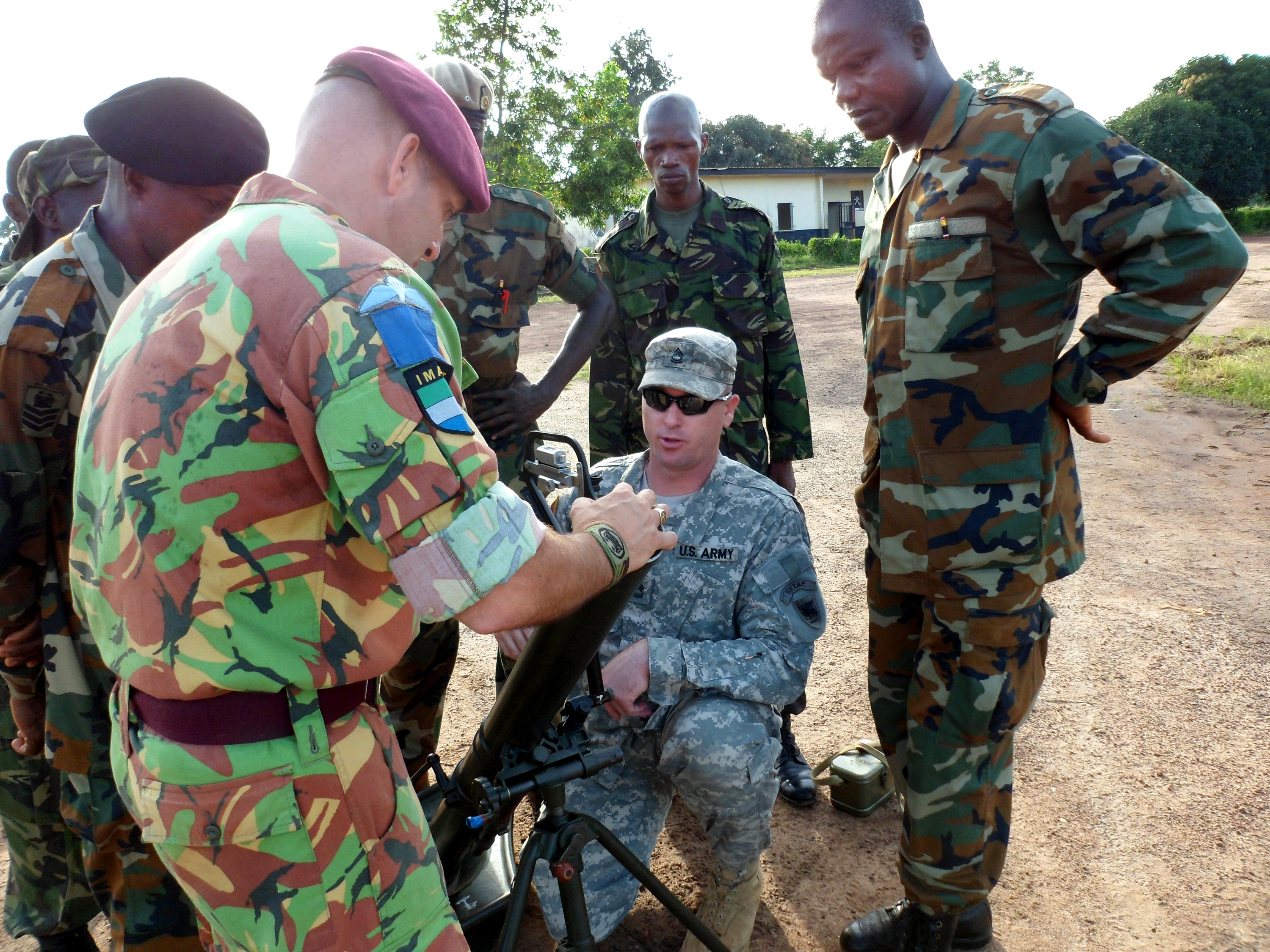 Sgt. 1st Class Grady Hyatt (kneeling) assists in training Republic of Sierra Leone Soldiers in the use of the Romanian 81/82 millimeter mortar, Hyatt works with a British Army counterpart (foreground adjusting mortar tube) from the United Kingdom's International Military Assistance Training Team known as IMATT. Mortar training took place at the Armed Forces Training Center near Waterloo, Sierra Leone. Hyatt is a military mentor for U.S. Army Africa with the U.S. Department of State’s African Contingency Operations Training and Assistance program known as ACOTA. U.S. Army photo. To learn more about U.S. Army Africa visit our official website at Official Twitter Feed: Official Vimeo video channel: Join the U.S. Army Africa conversation on Facebook